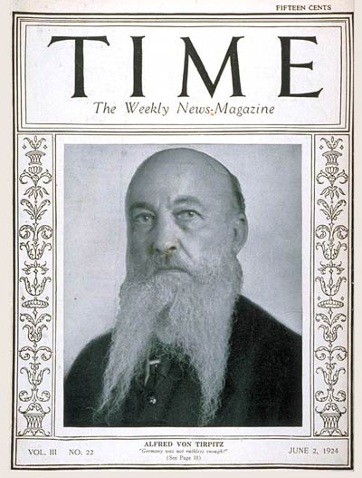 Alfred von Tirpitz on Time magazine cover, 1924.